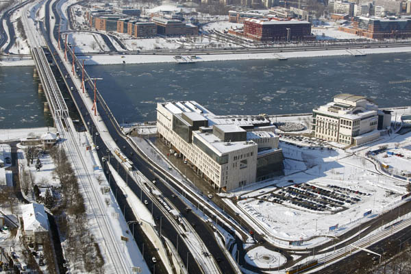 Budapest, Hungary, aerial photography